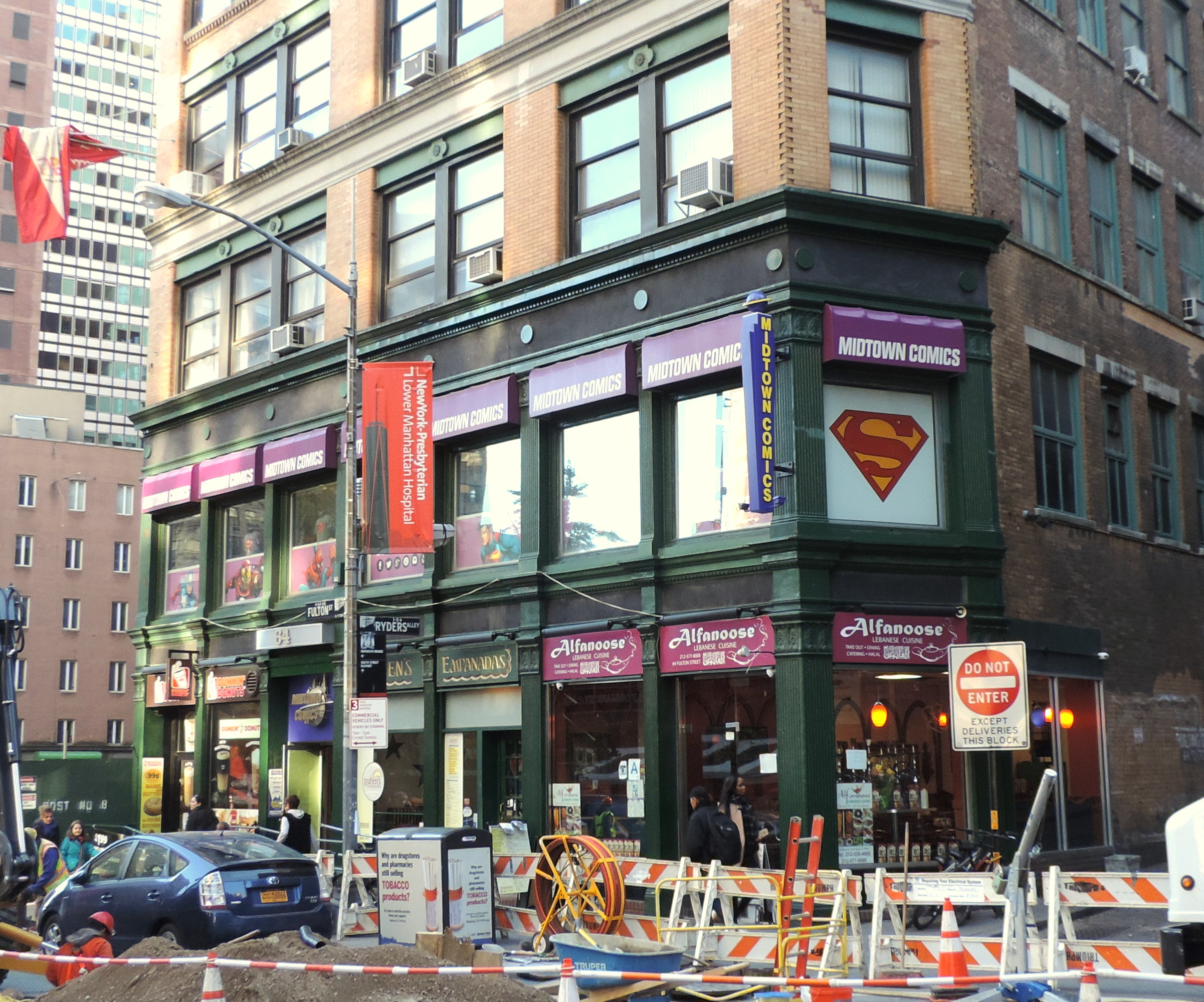 Midtown Comix Downtown branch, 64 Fulton Street